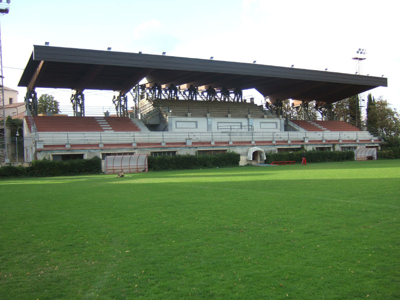 Covered central tribune of the stadium “Francesco Pallozzi” of Sulmona (Aq).